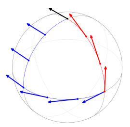 Transporting a vector along two different curves with the same initial and terminal point on a manifold gives different results. This picture uses the Levi-Civita connection for parallel transport along the red and blue curves on the sphere.